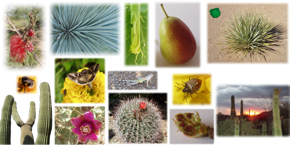 Collection of some of my photos of plants and animals